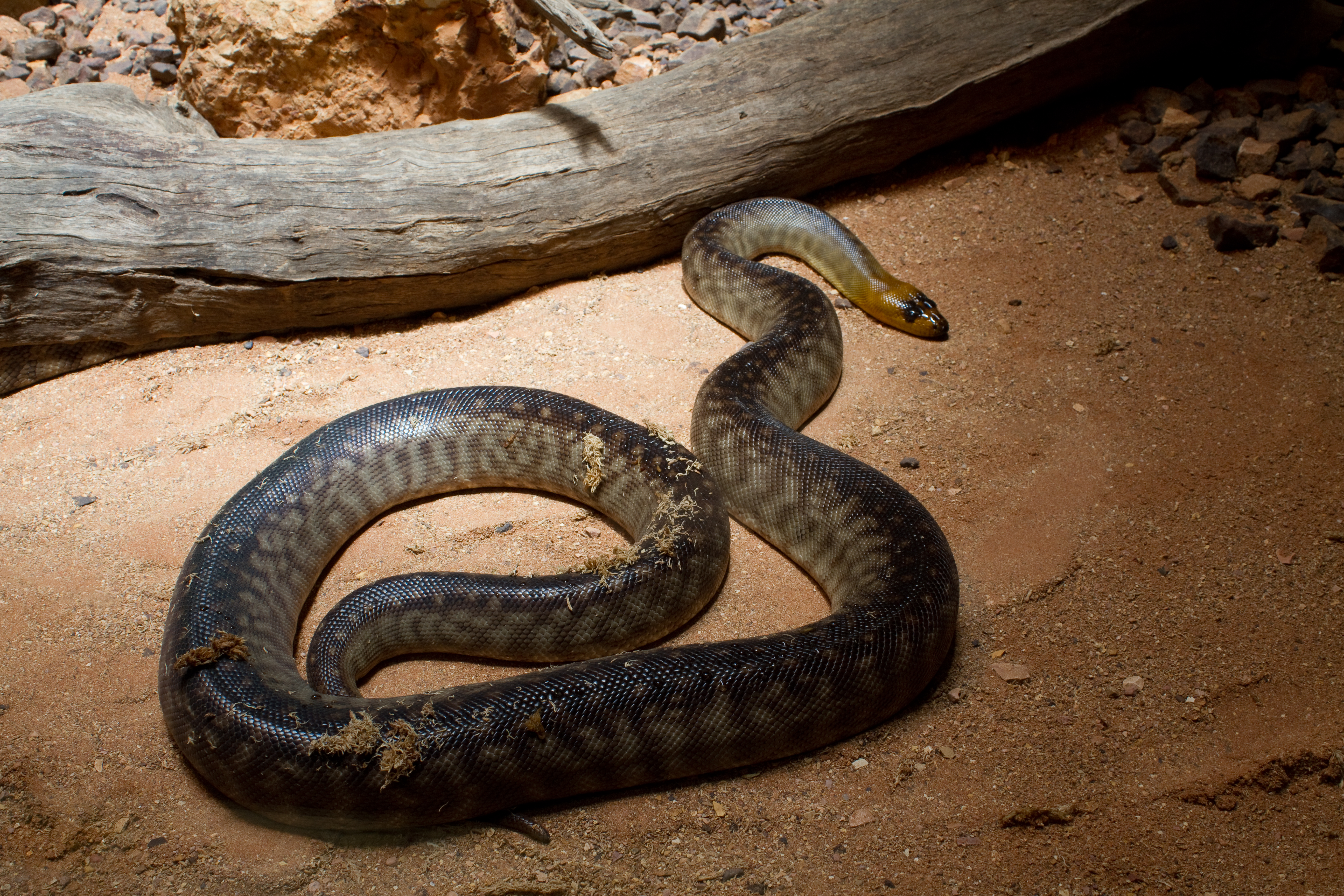 A Ramsay's Python (also known as Woma Python and Sand Python) at Australia Zoo, Queensland, Australia.